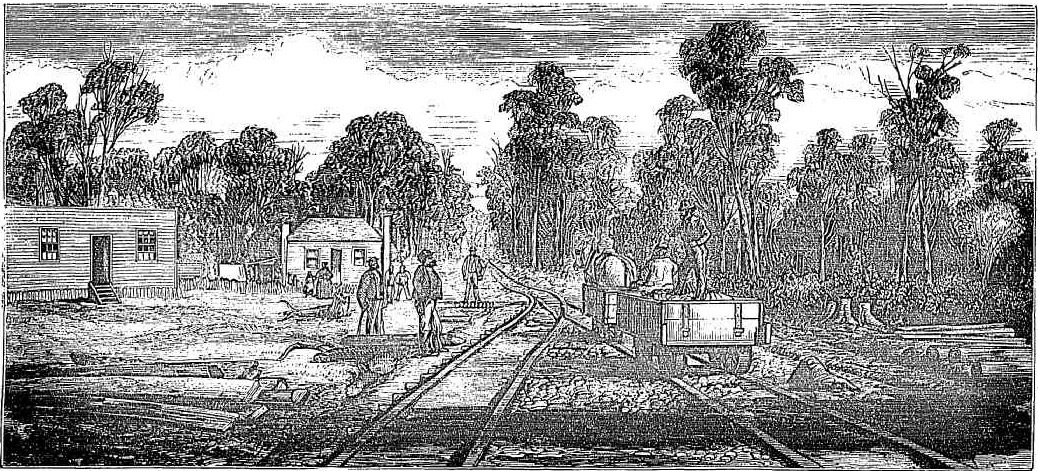 Tasmanian Charcoal Iron Company horse-drawn tramway toward mine. Unkown artis / engraver. Published in Illustrated Australian News for Home Readers on Tue 9 Sep 1873 Page 156 )